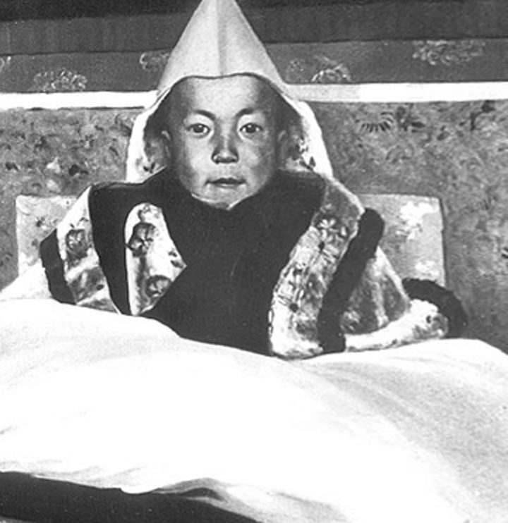 14th Dalai Lama, at his enthronement ceremony, February 22, 1940 in Lhasa